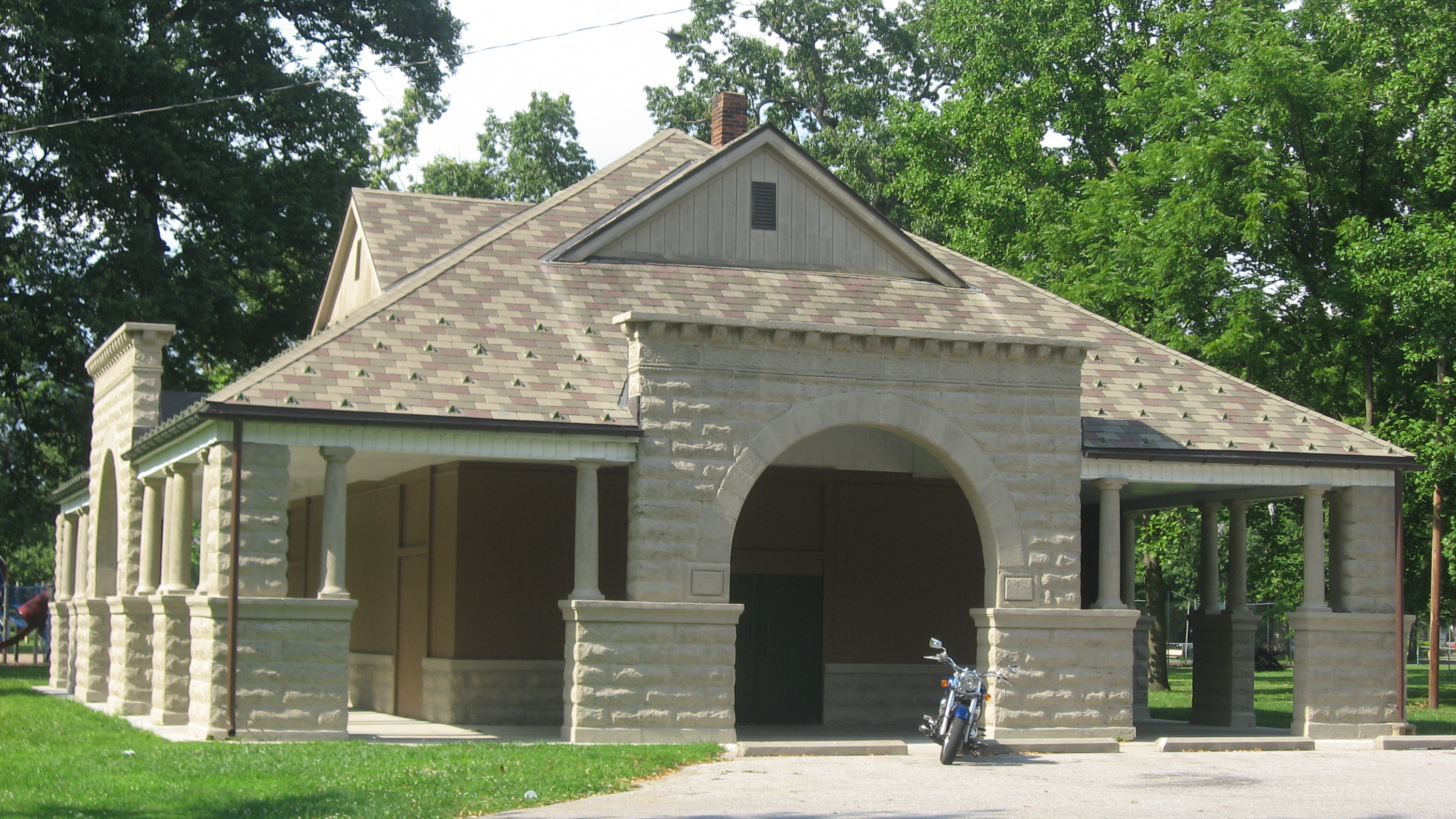 Southern side of the pavilion in Collett Park in Terre Haute, Indiana, United States. Built in 1894, it is listed on the National Register of Historic Places along with the rest of the park.